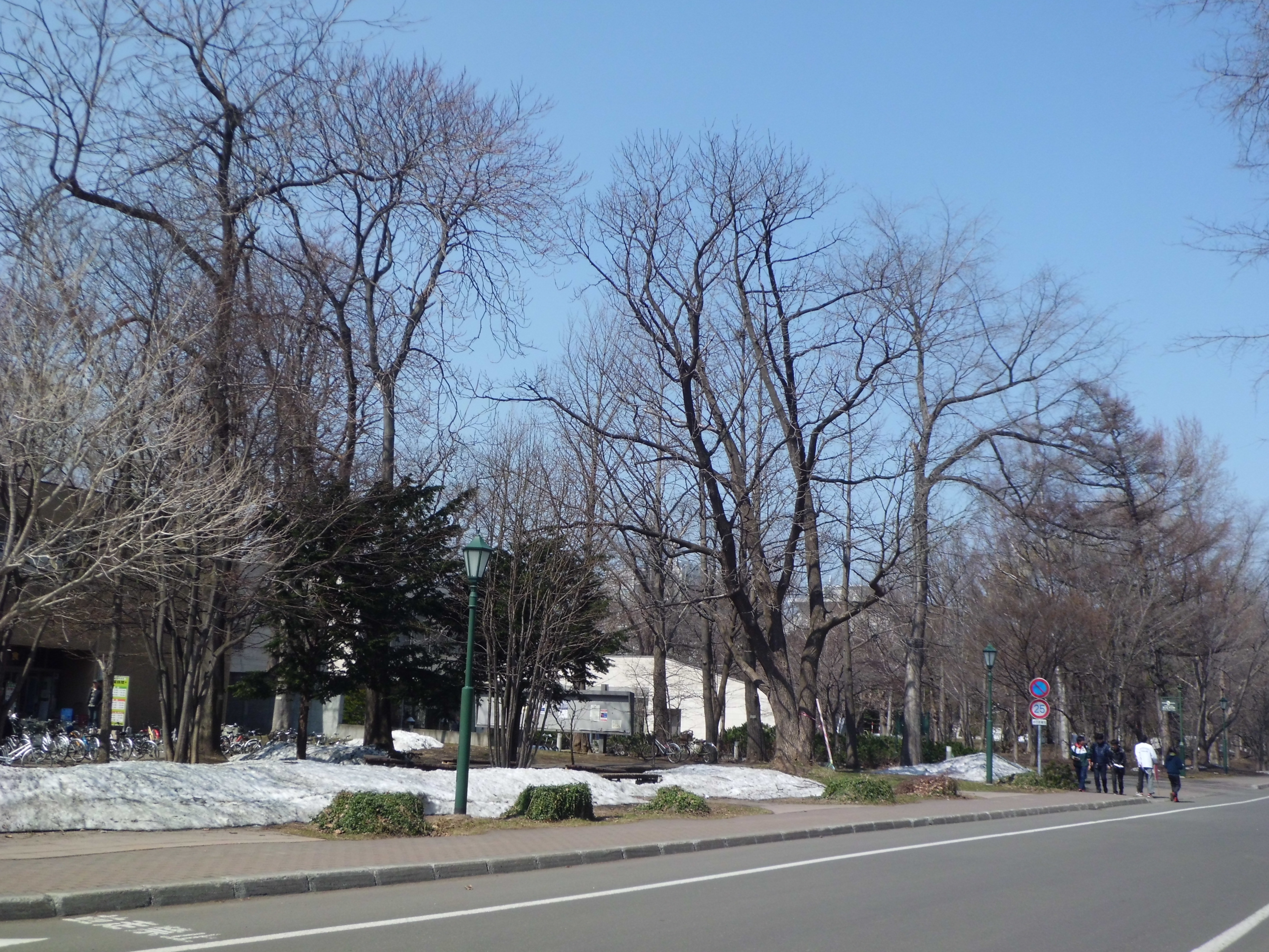 Poplar stumps at Hokkaido University